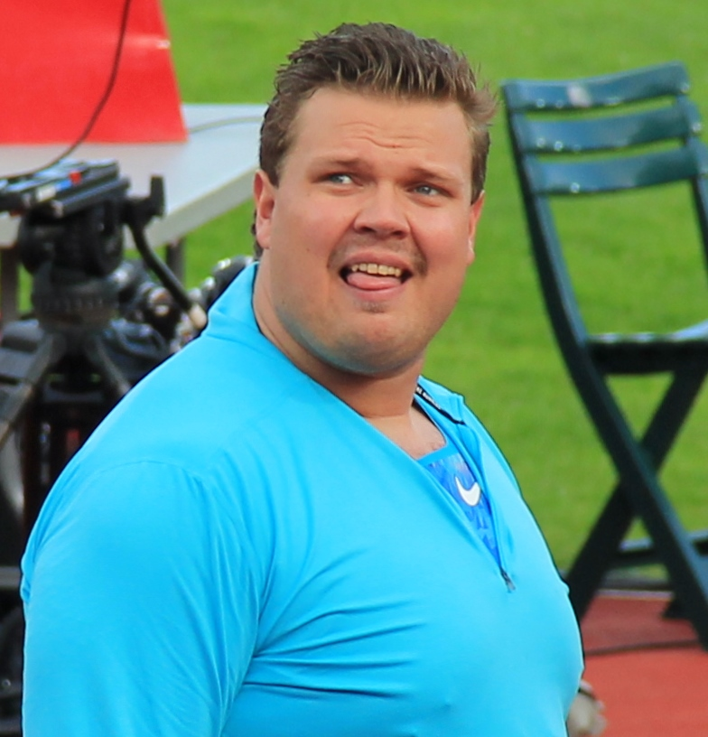 Daniel Ståhl at the 2017 Bislett Games